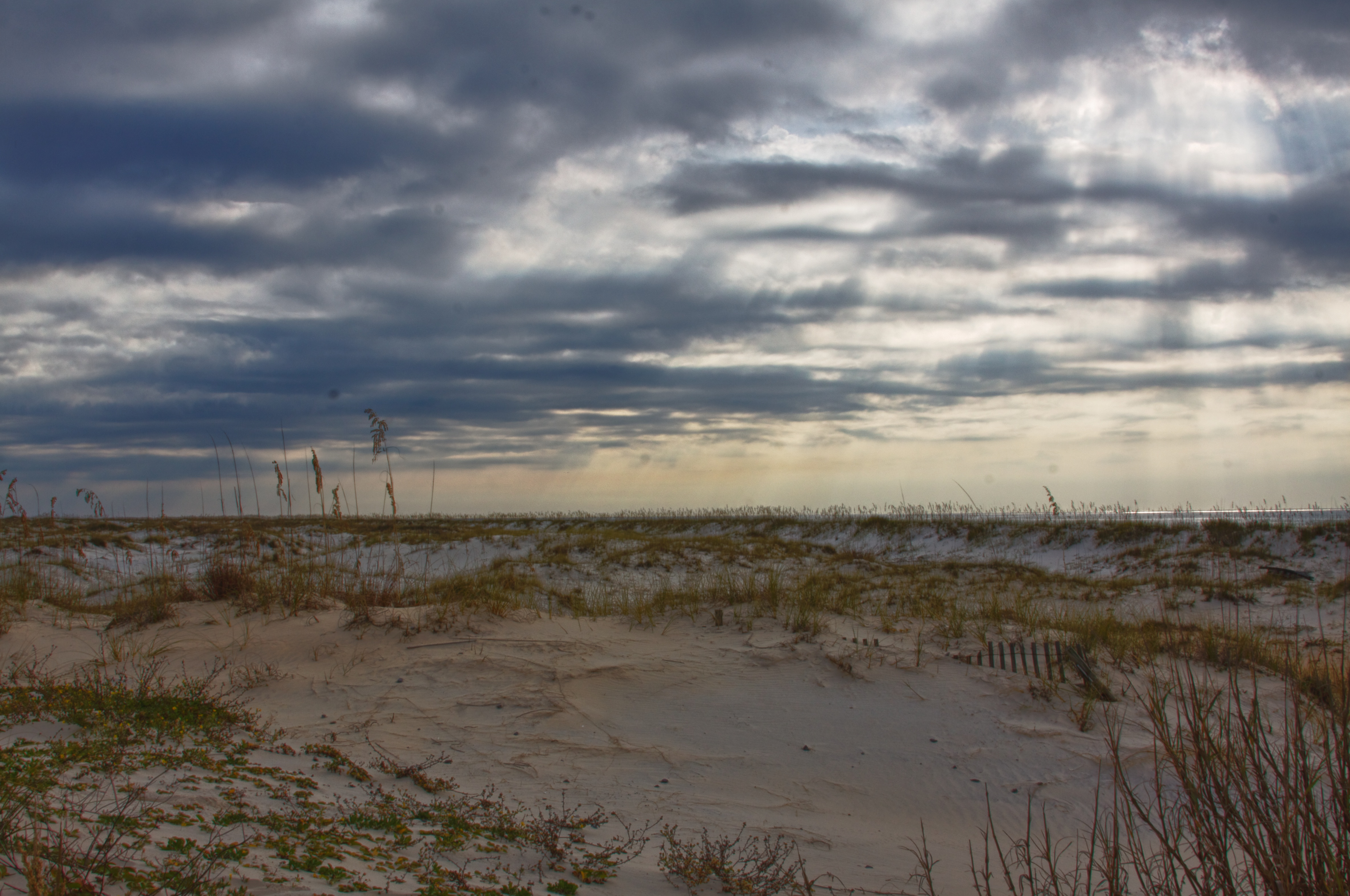 Early Morning at Bon Secour NWR Credit: USFWS Photographer: Keenan Adams